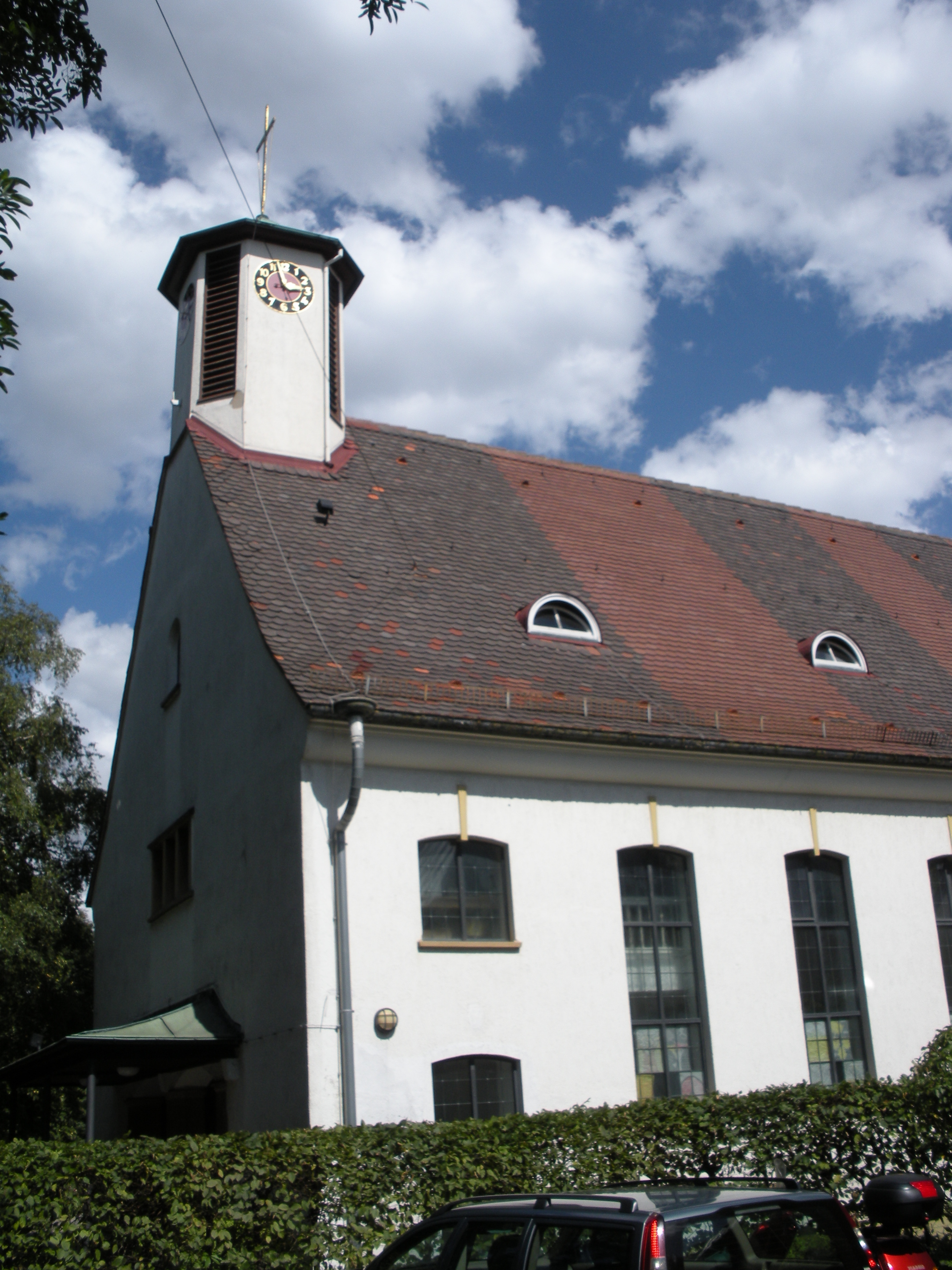 Protestant Forest-Church (Waldkirche) in Stuttgart-North